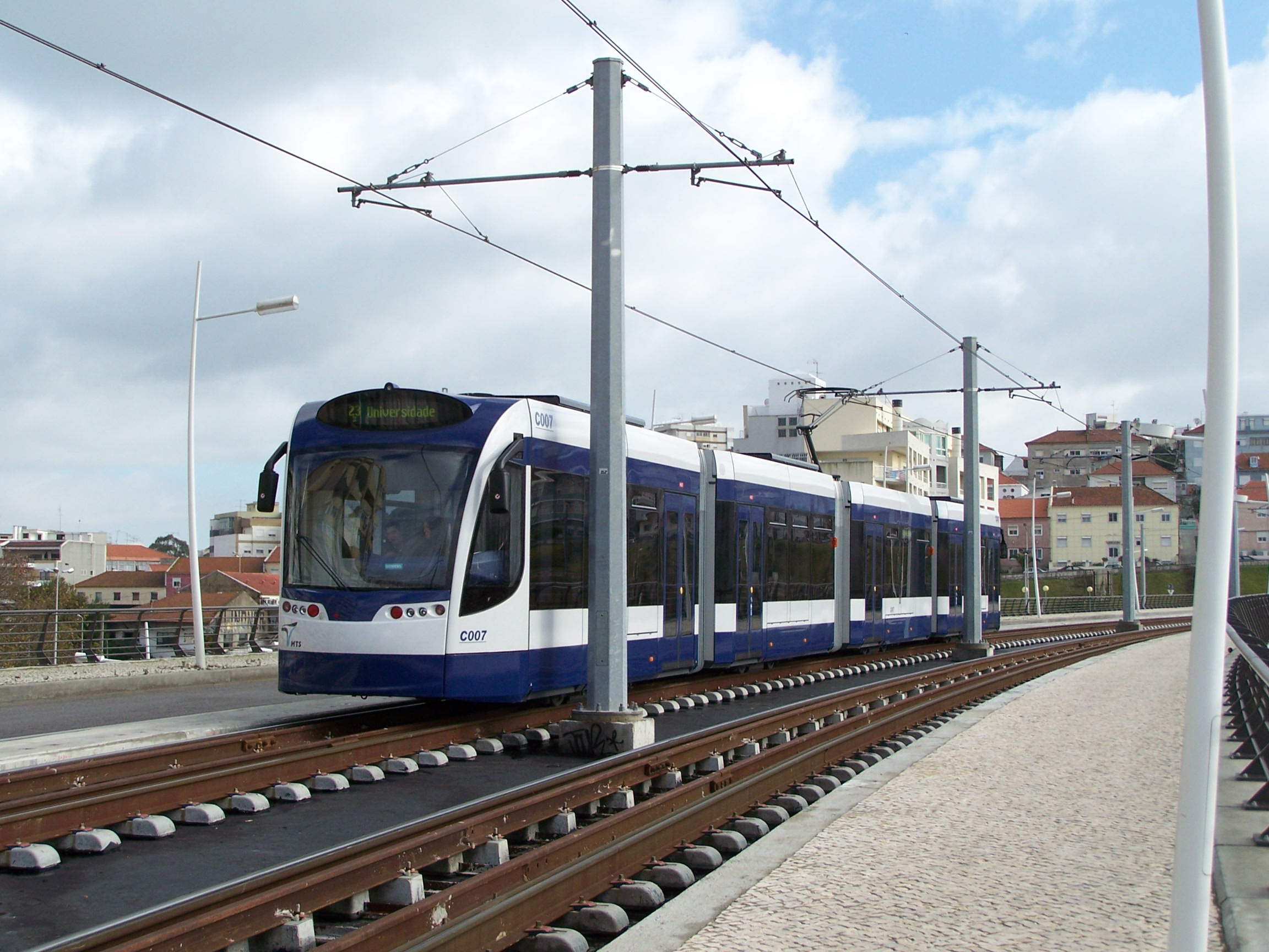 Siemens Combino Plus tram (#C007) of the Metro Sul do Tejo, Almada, Portugal. Built 2007.